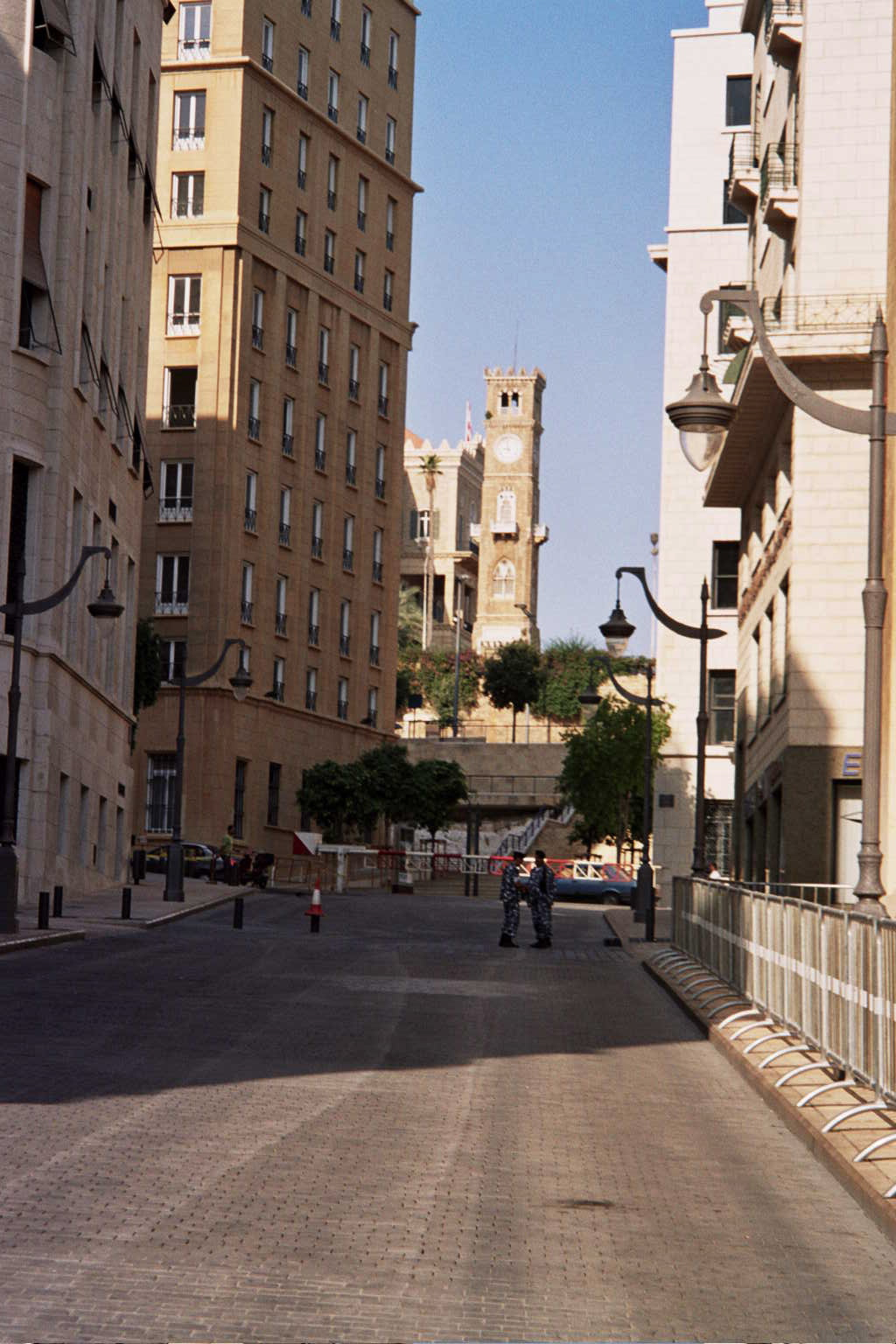 there were heavily armed soldiers everywhere in downtown beirut. it was a bit of a shock after syria. syria was a police state, but the police were all undercover so you never saw the big guns in civilian areas. at least not until i got to beirut. you weren't supposed to take photos of the soldiers, but these guys were far enough away, i didn't think they'd notice.